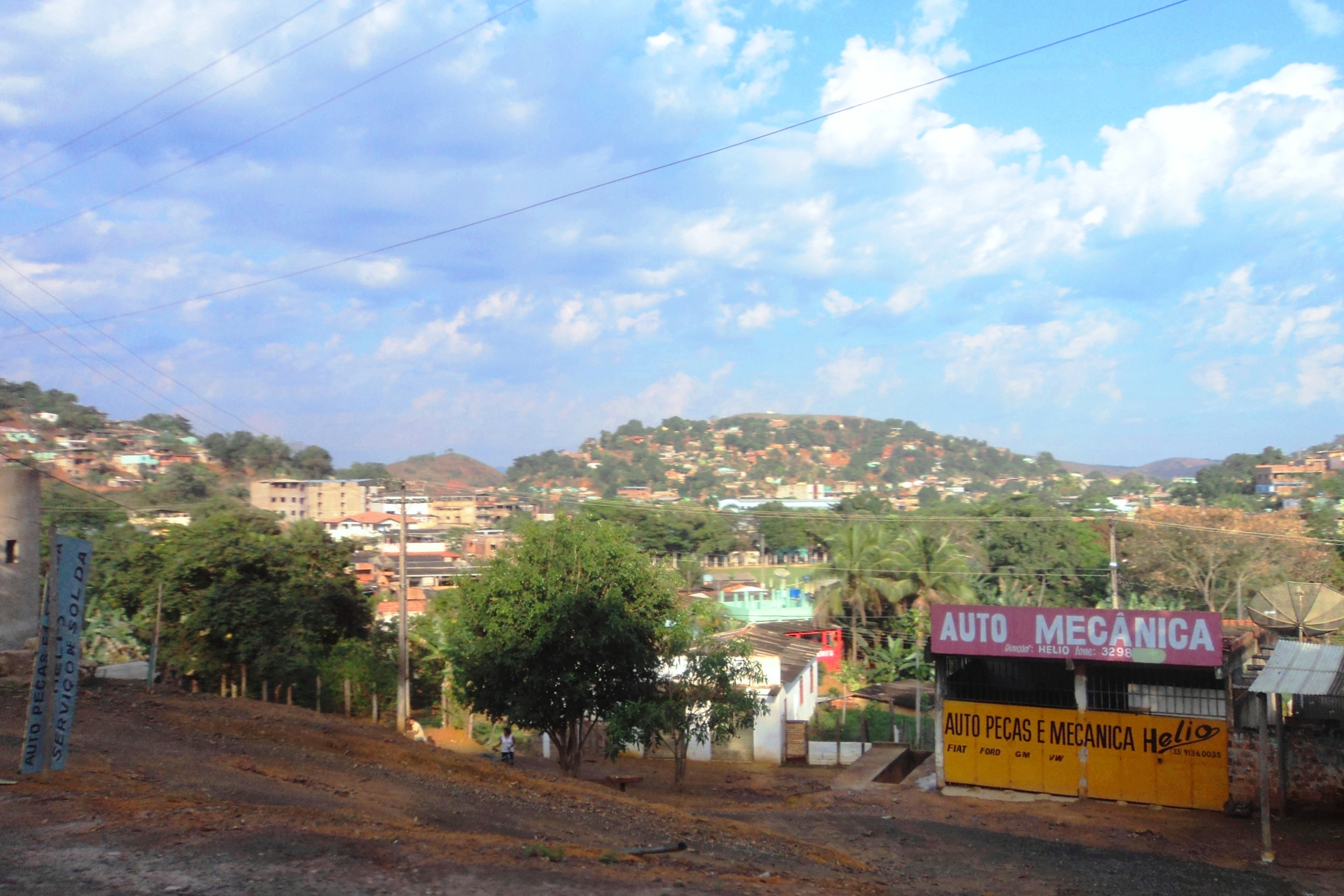 Partial view of Naque, Minas Gerais, Brazil.